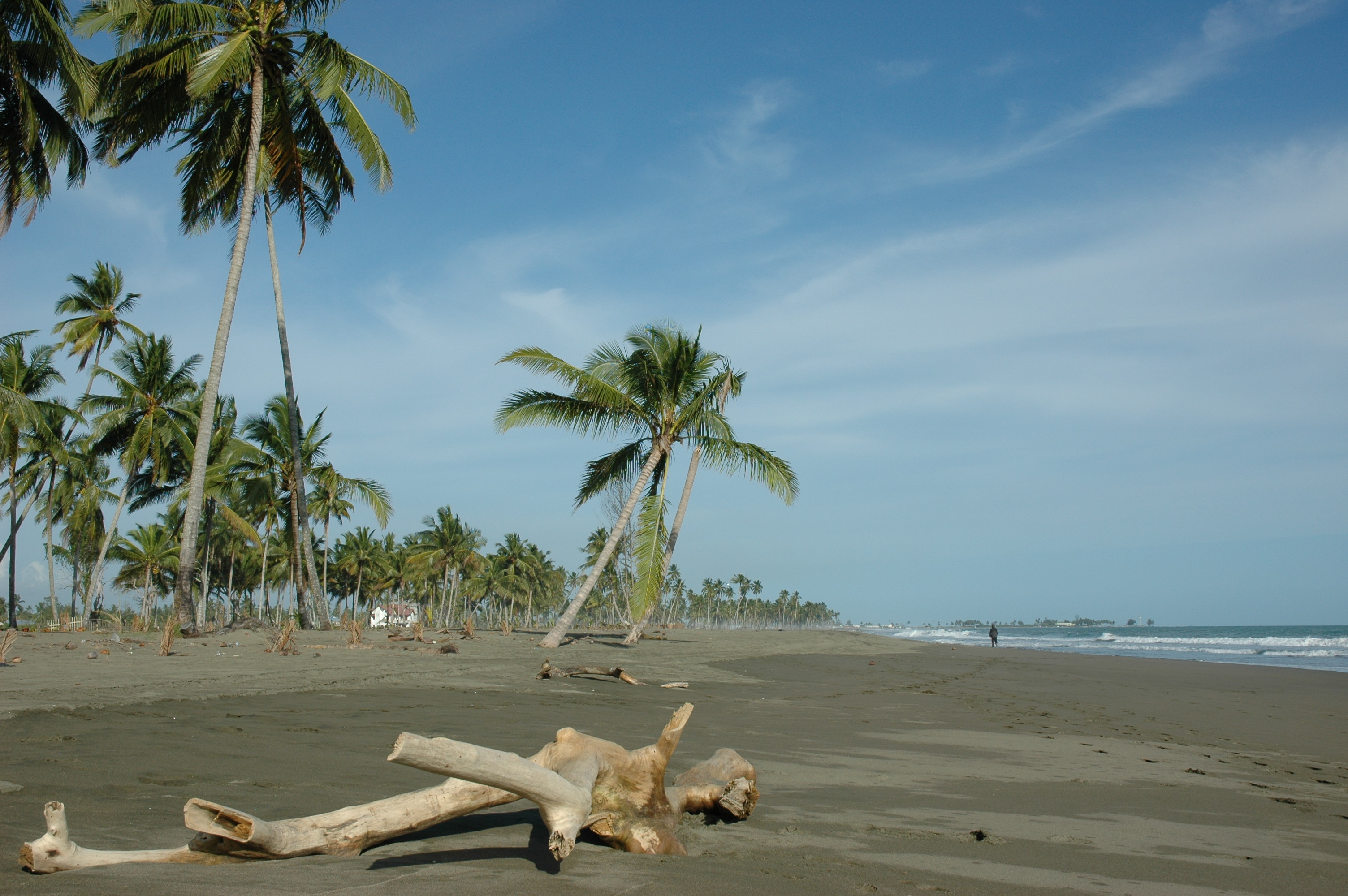 Batu Putih Beach, Meulaboh, Aceh.